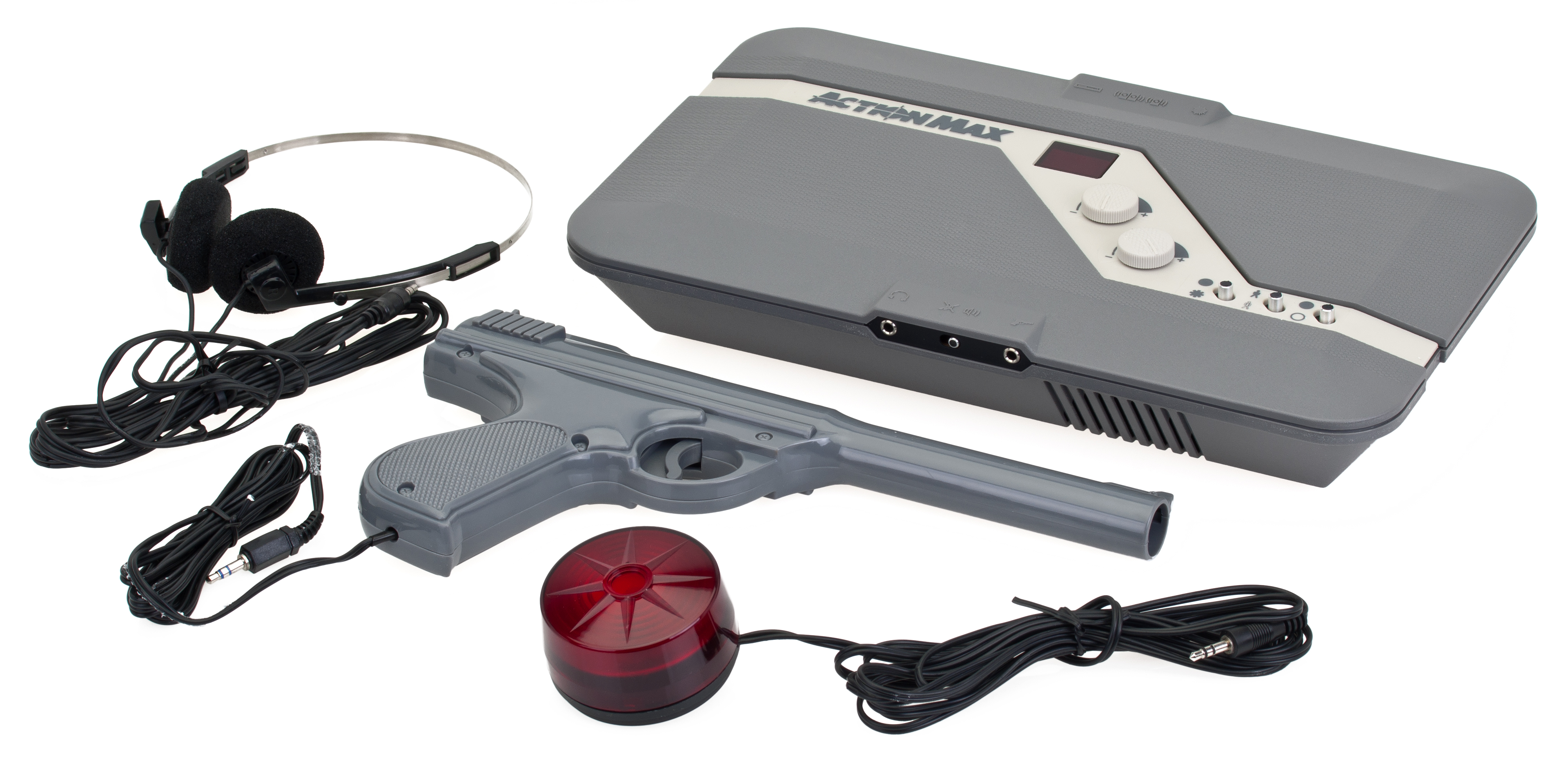 The Action Max video game system shown with all components. This was an ill-fated system based on VHS tapes and simple on-rails shooter gameplay. Very few games were released.